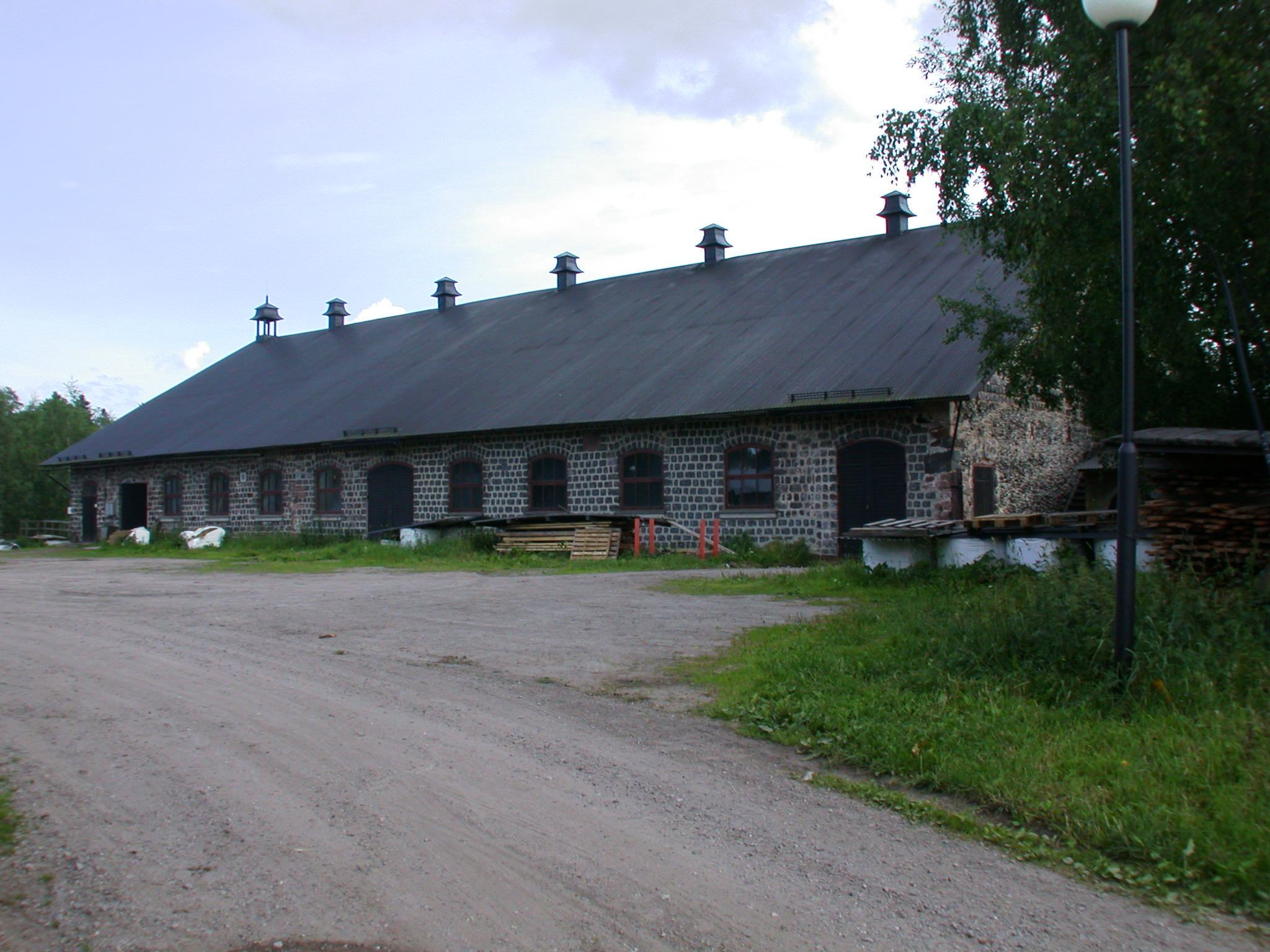 The stables, Mackmyra bruk and destillery, Sweden